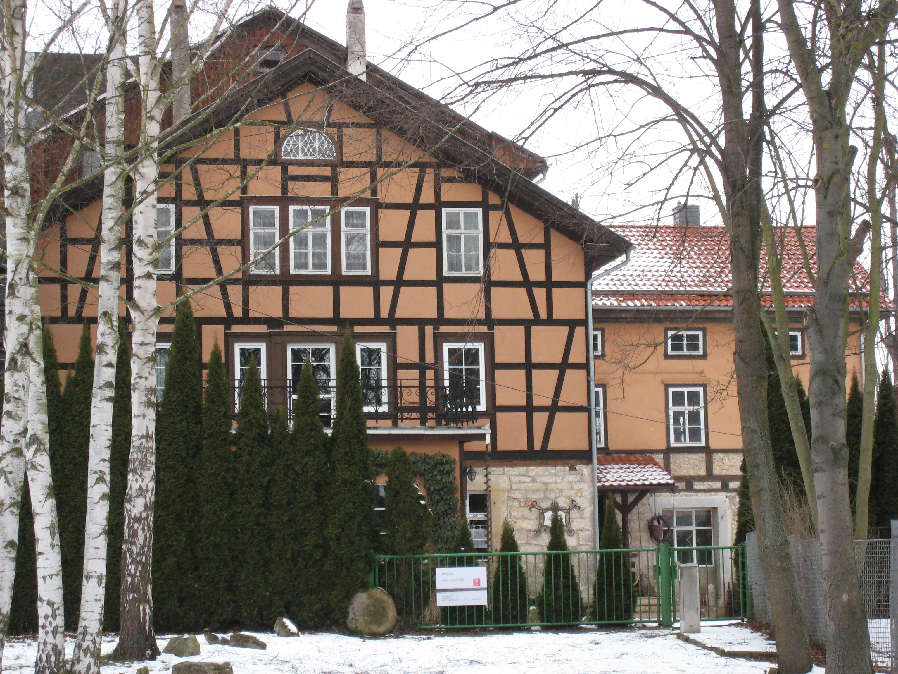 Arnstadt Neumühle, Hammerecke 2